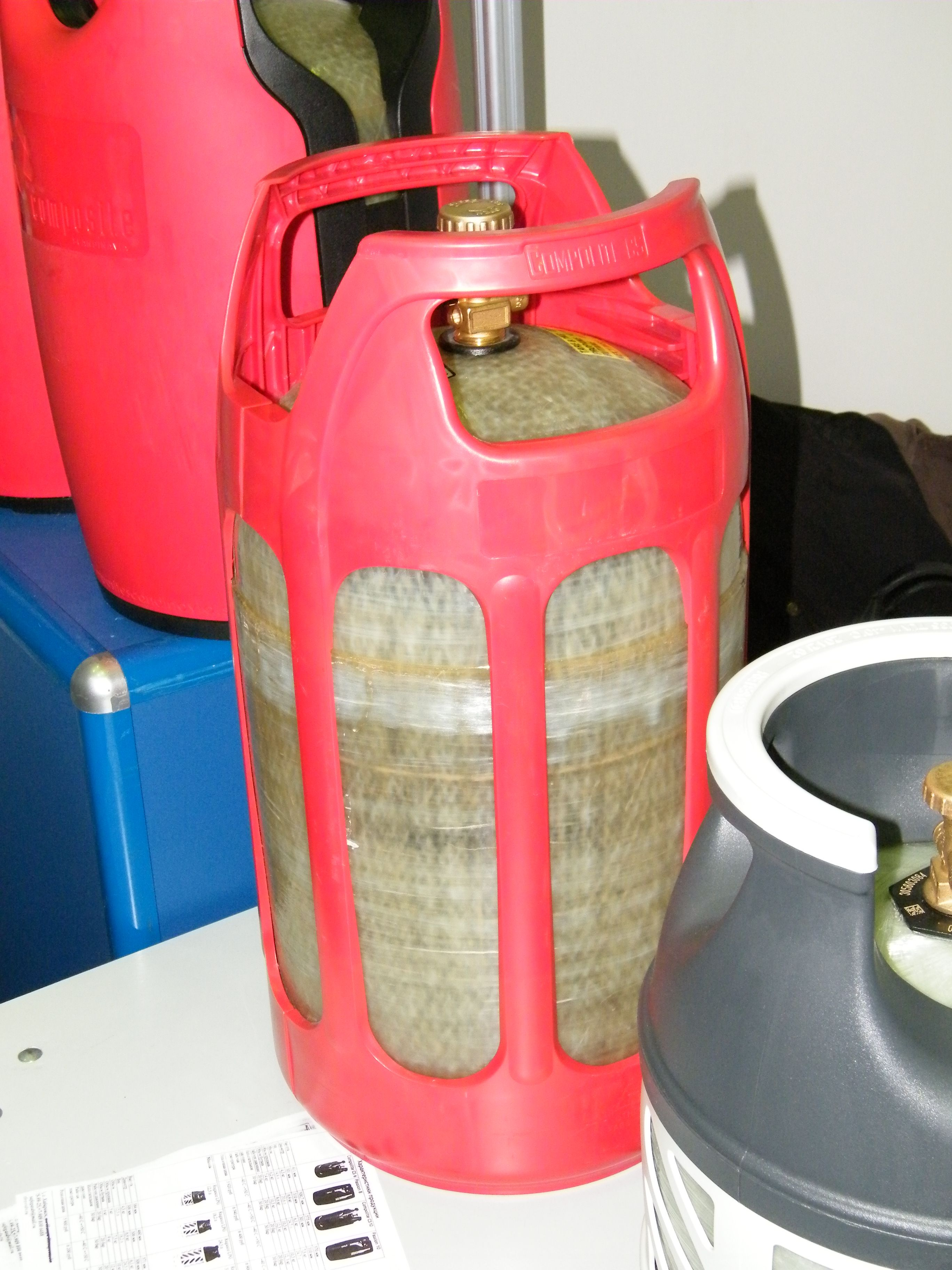 Пластмассовый газовый баллон